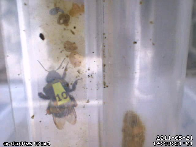 Showing tagged worker of Bombus terrestris entering its colony after a foraging trip. Captured using Rana. Note pollen on hind legs of the bee